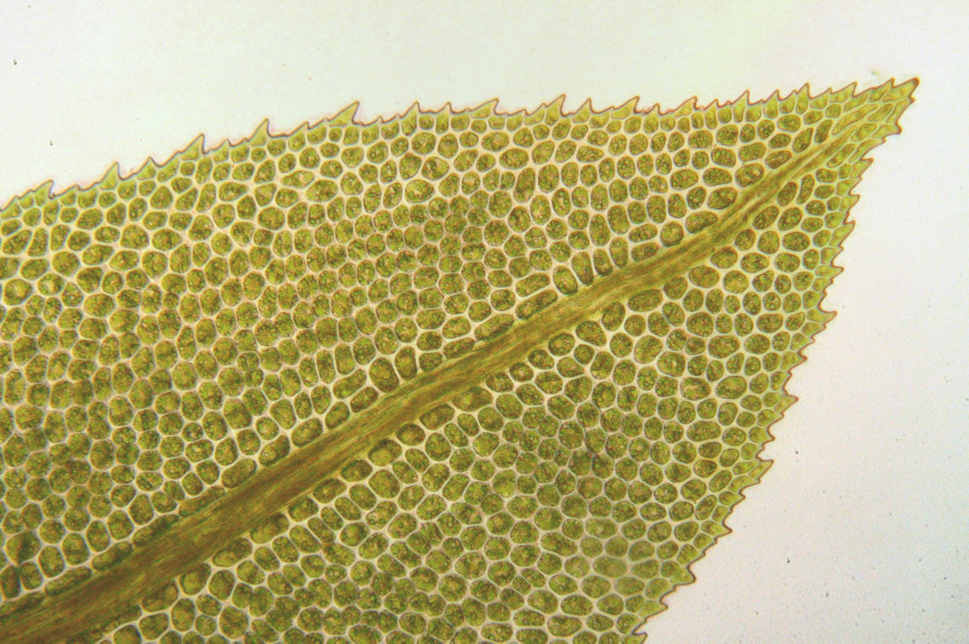 Fissidens adianthoides